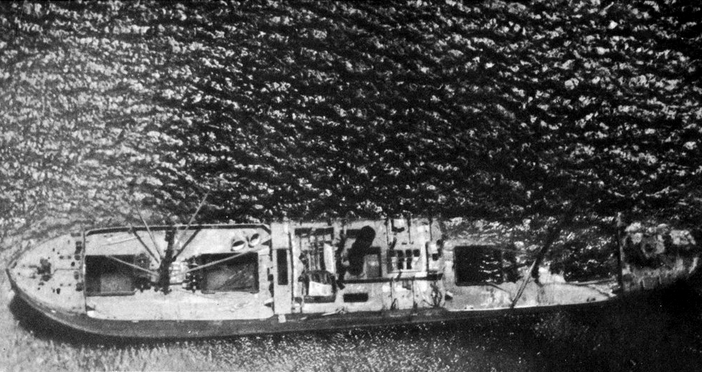 Aerial view of a Japanese freighter sinking off Okinawa, circa in 1945.